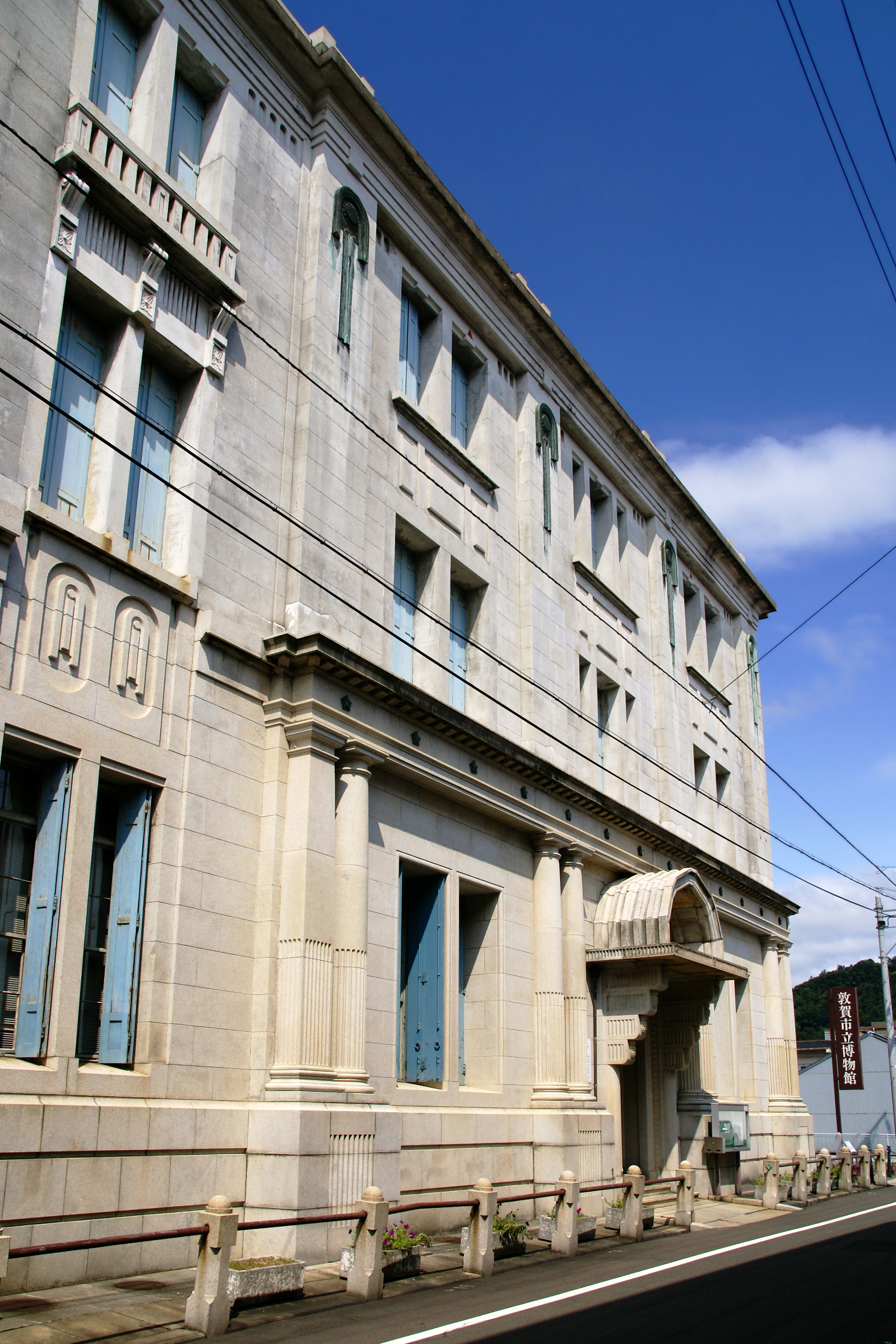 Tsuruga City Museum in Tsuruga, Fukui prefecture, Japan